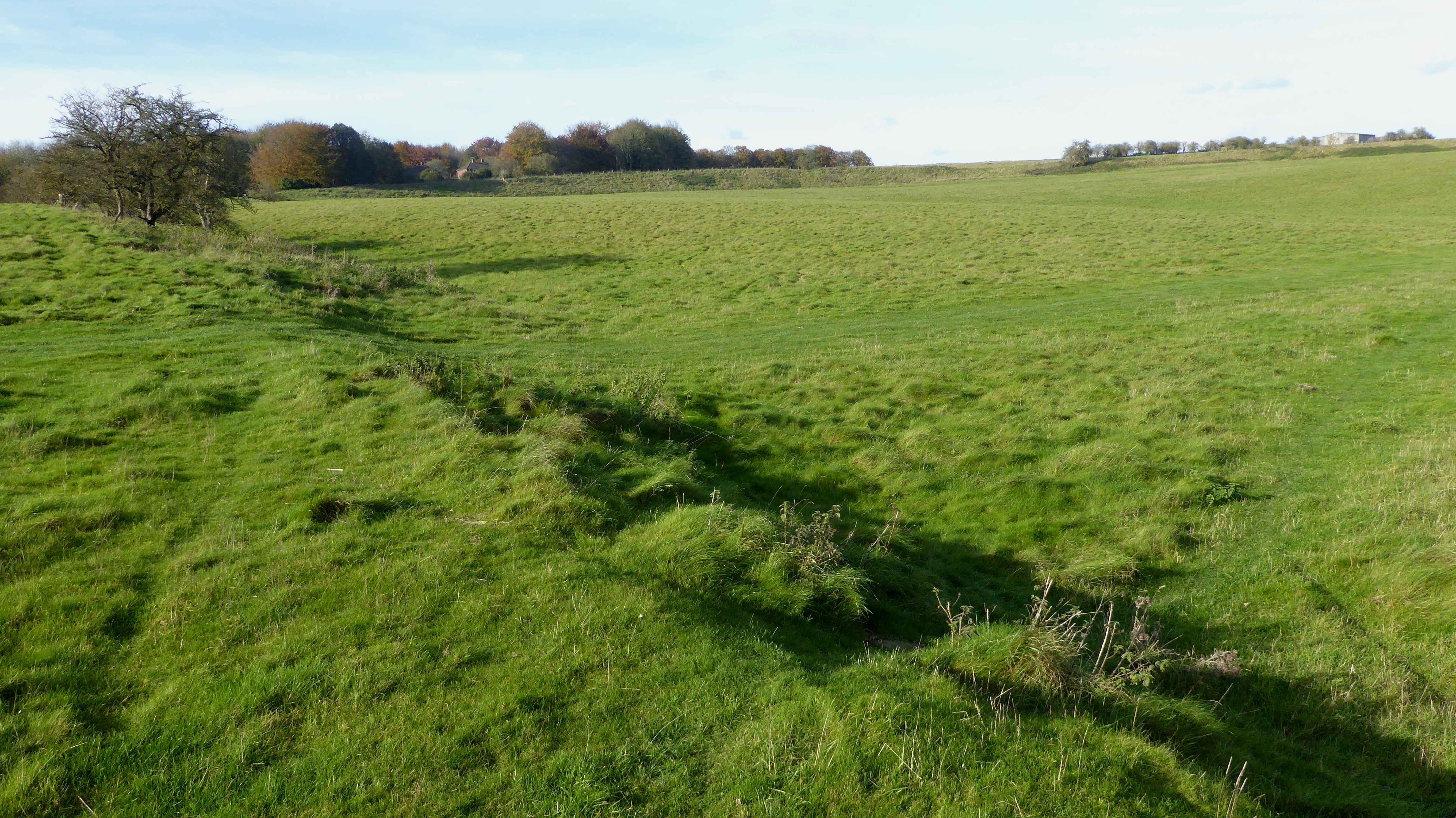 In the foreground is the southern wall of Durrington Walls, a prehistoric site near to Durrington in Wiltshire. In the background of the image is the western wall of the site.